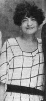 A white woman with dark curly hair, standing and smiling; she is wearing a white dress with a square neck in a windowpane check pattern, and a dark belt at the waist.